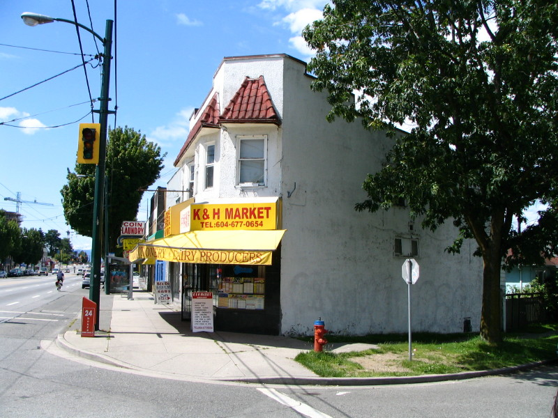 This image was created by me, Flying Penguin of Pacific Spirit Photography of Burnaby, British Columbia, Canada.